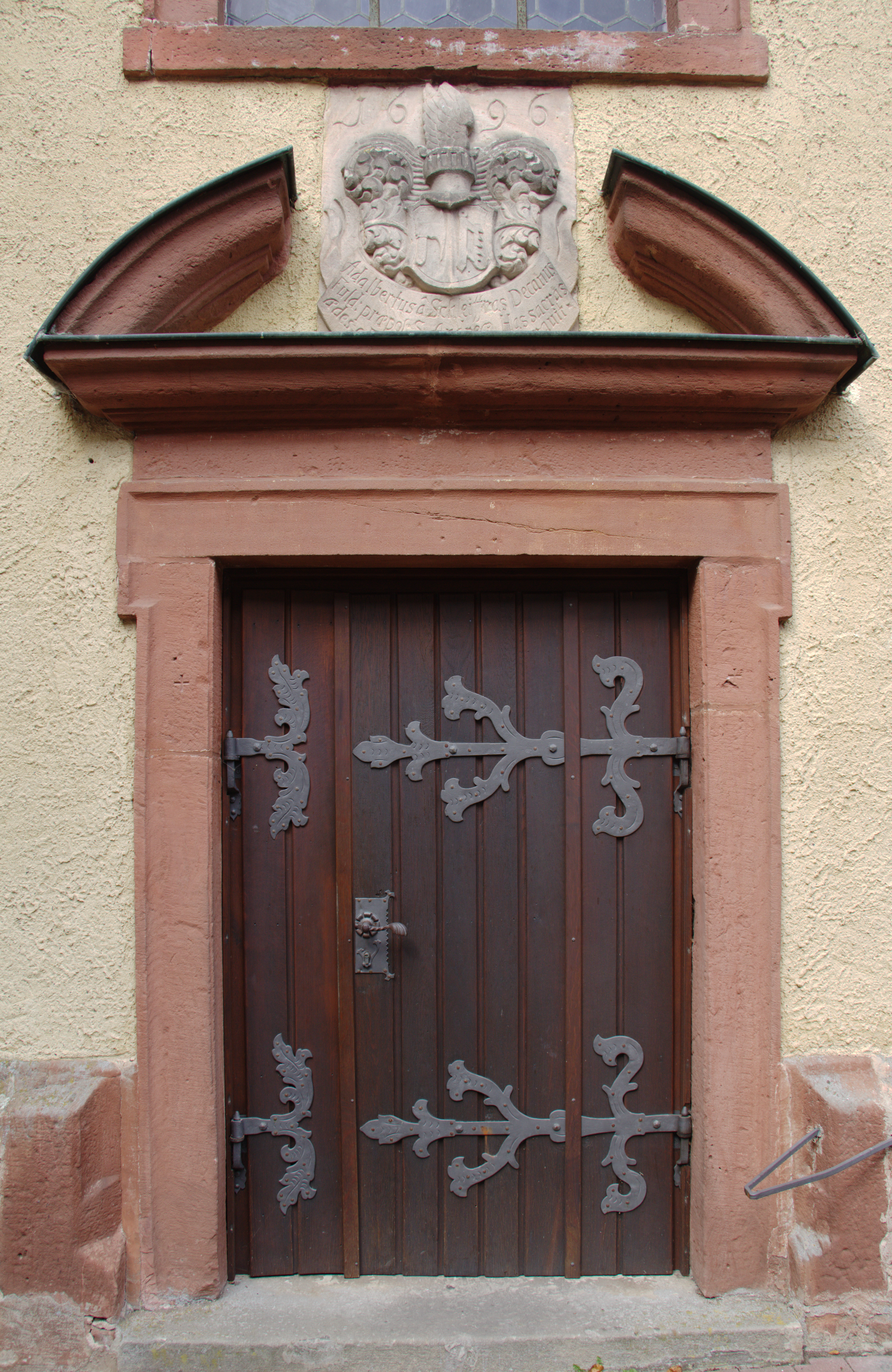 Pilgrimage chapel "Kleinheiligkreuz" (Portal) in Kleinlueder, Grossenlueder, Hesse, Germany